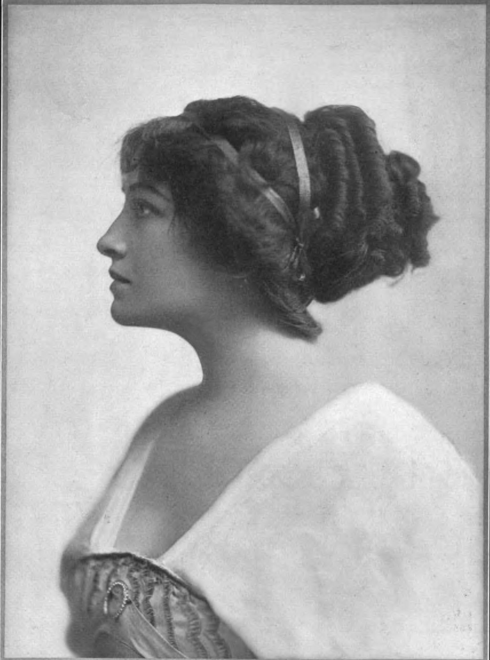 Pauline Frederick by Sarony ca. 1909